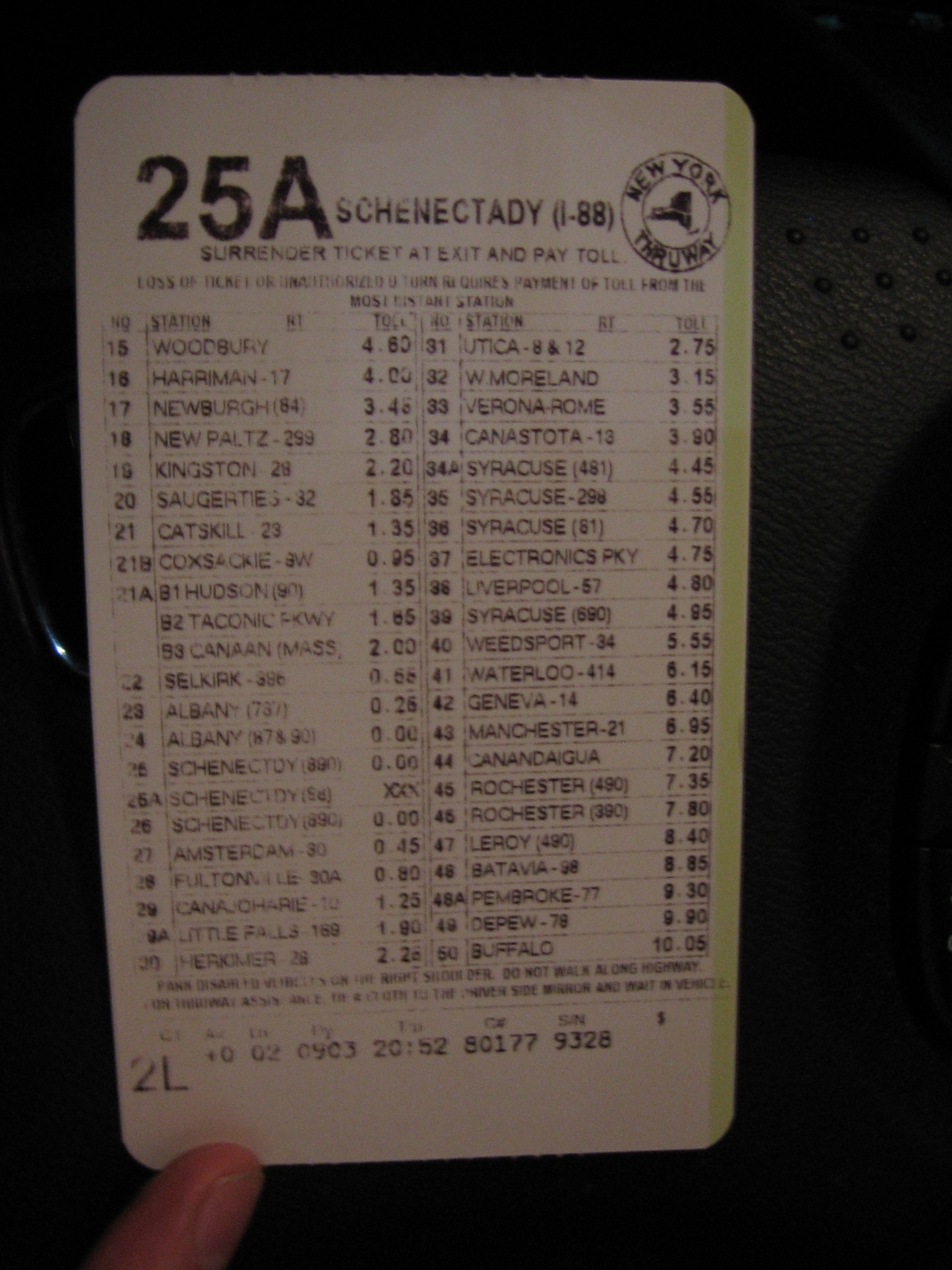 Front of a New York State Thruway toll ticket, obtained at exit 25A on September 3, 2006.